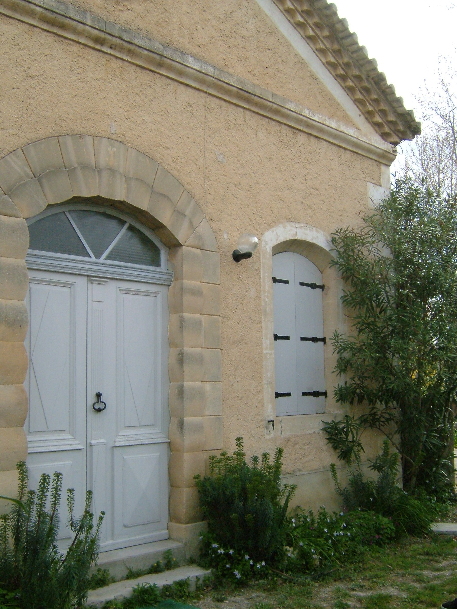 Door of the Quaker Meeting House in 30111 Congénies, Gard, France